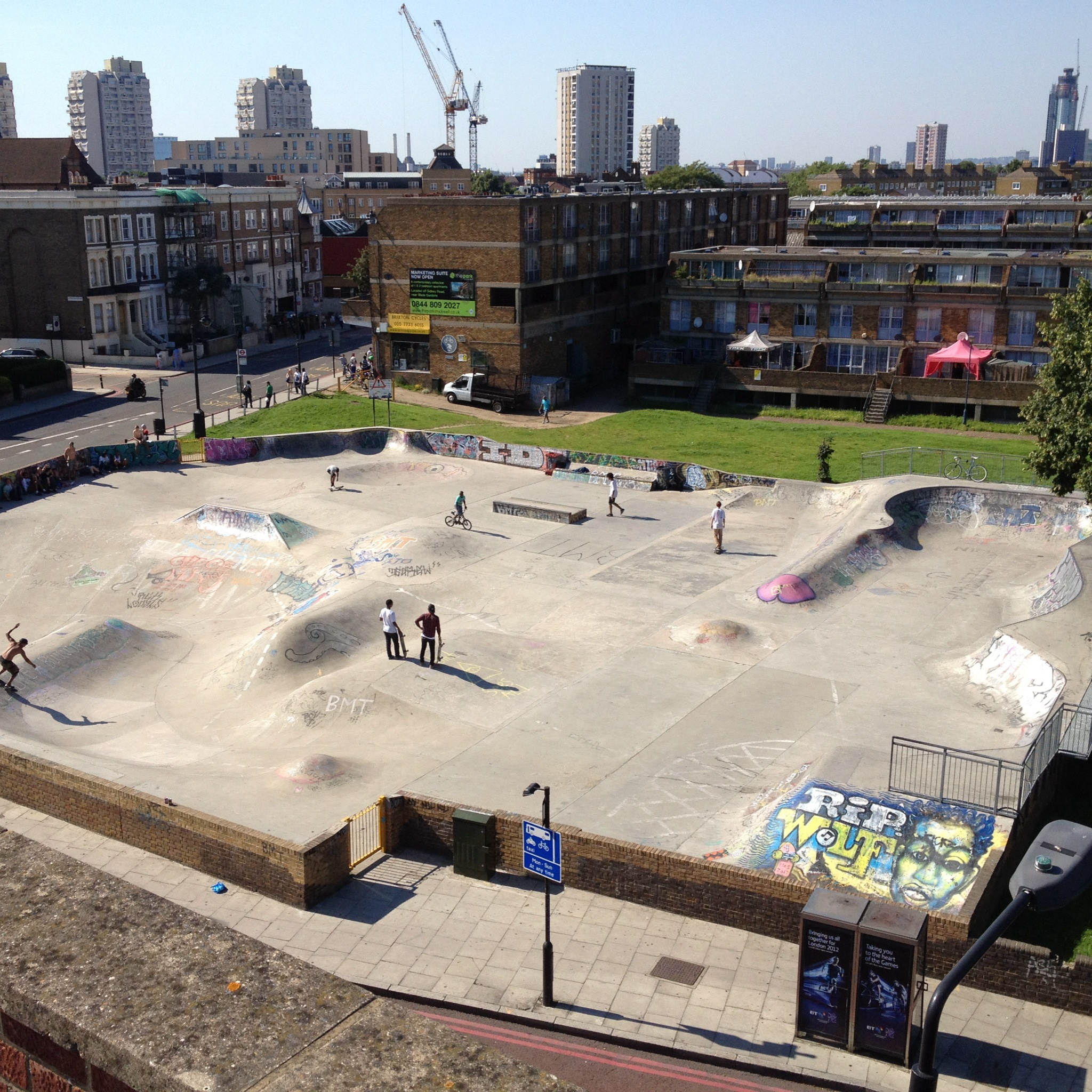 Stockwell Skatepark in Brixton, London (UK), photographed on the 24th July 2012 looking north from the roof of Goodwood Mansions on Stockwell Park Walk.